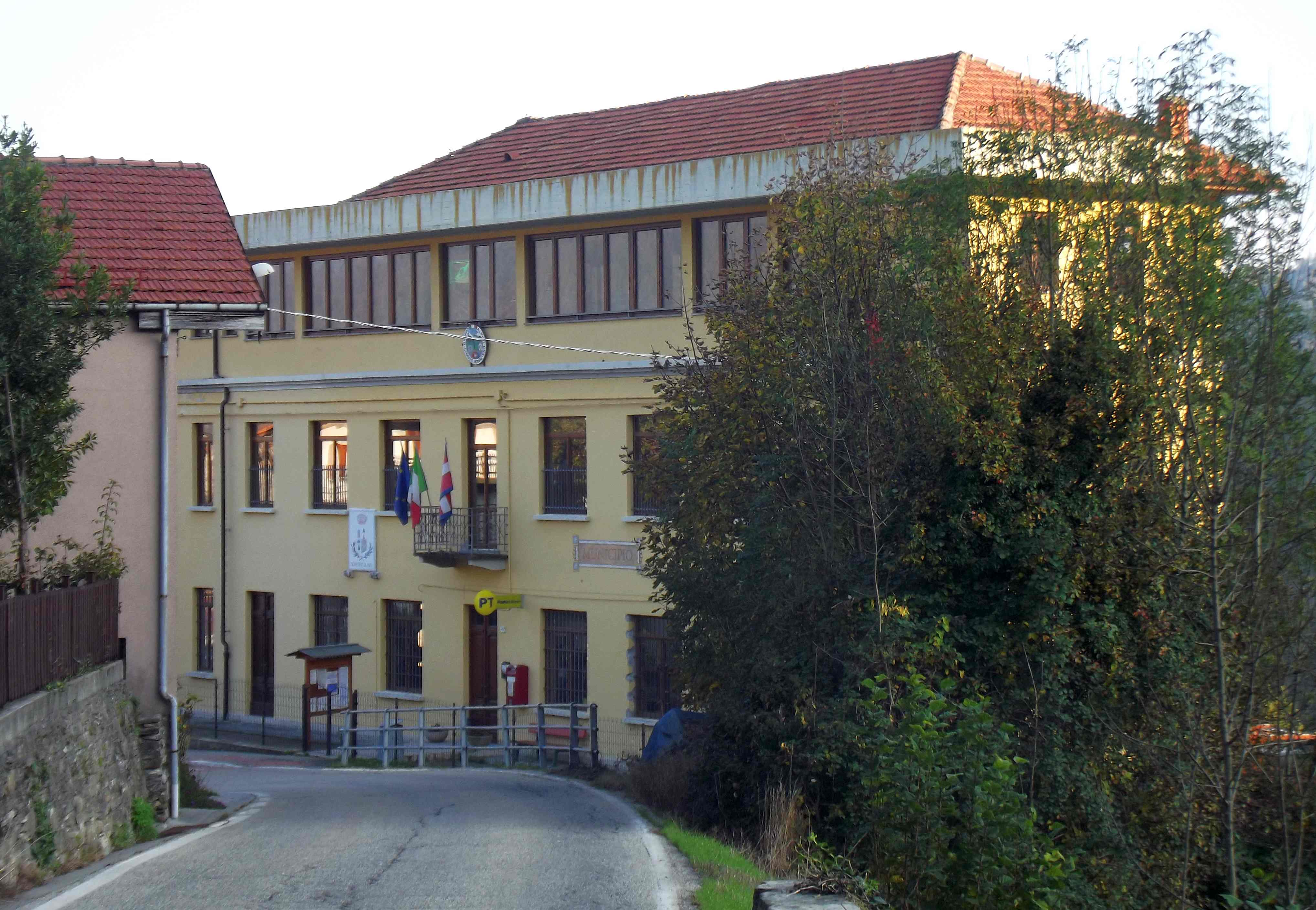 Monastero di Lanzo (TO, Italy): town hall